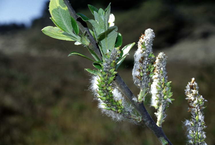 Salix hookeriana — Dune willow. At the Humboldt Bay National Wildlife Refuge, Humboldt County, coastal Northern California.